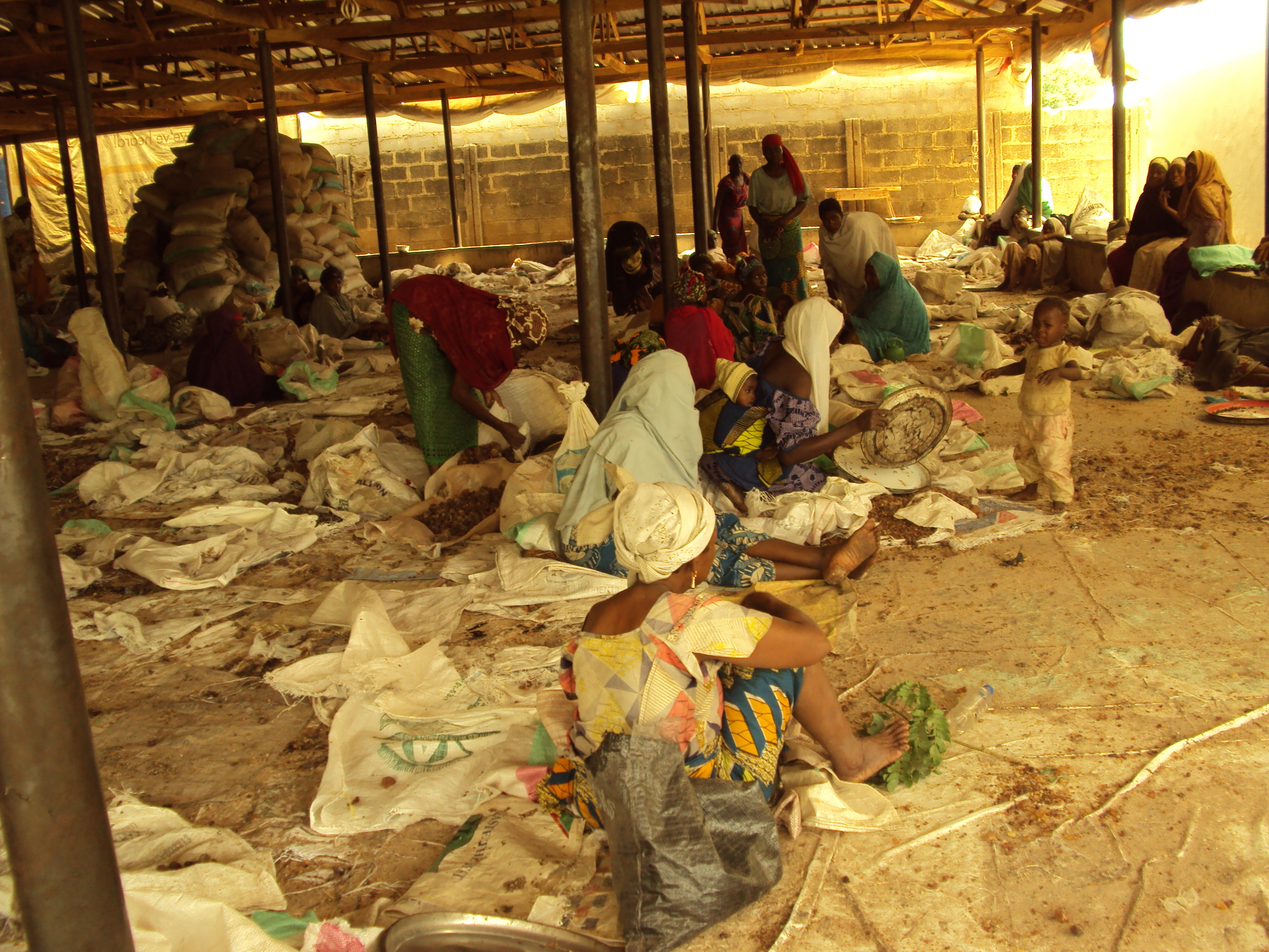 Women at work at the Arabic Gum handpick factory in Kano state, Nigeria This is an image of "African people at work" from Nigeria